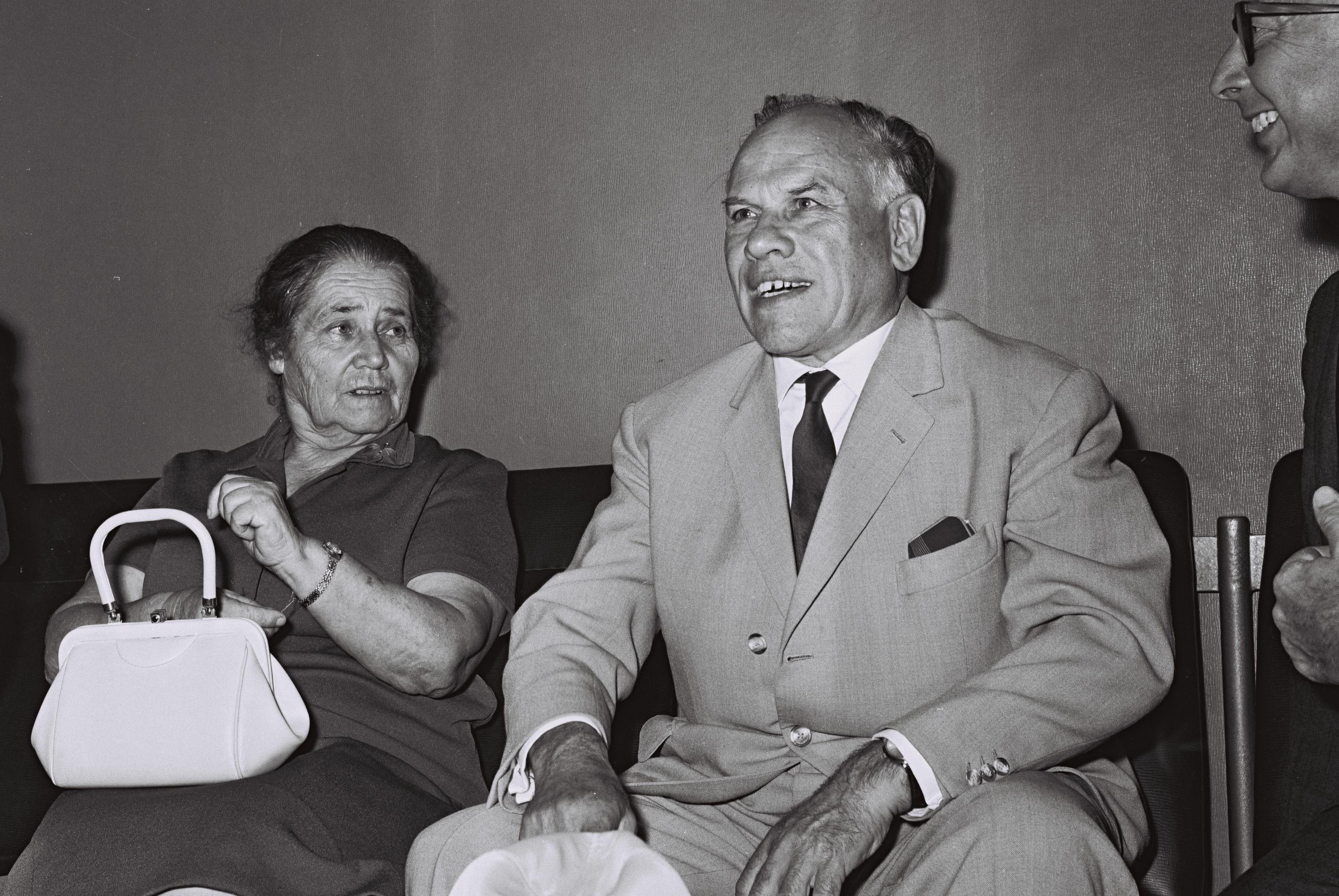 PRES. OF THE GERMAN BUNDESTAG EUGEN GERSTENMAIER WITH MK DVORA NETZER AT LOD AIRPORT AFTER HIS ARRIVAL FOR THE INAUGURATION CEREMONY OF THE NEW KNESSET BUILDING.